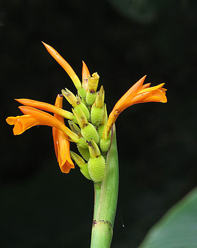 Native to the Caribbean and the tropical Andes. Photo from near the town of Sumaco, Ecuador. In context at